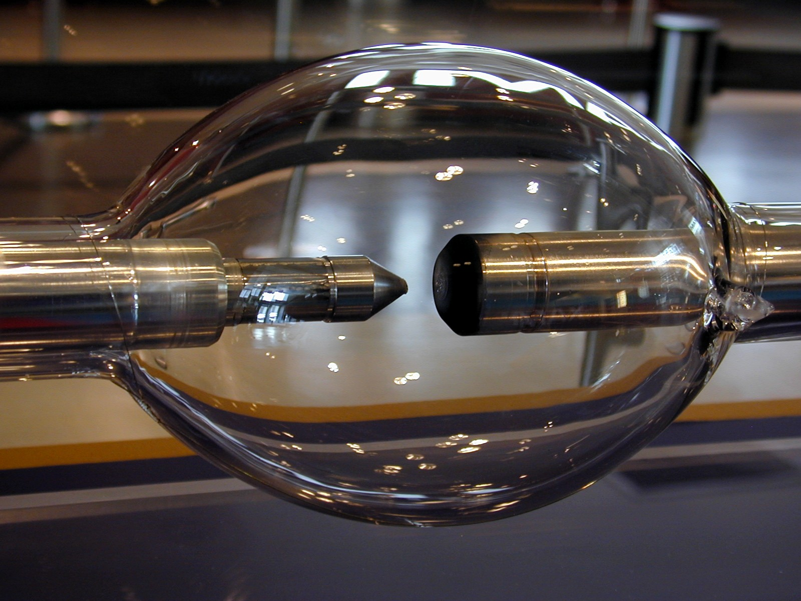 Close-up of a 15KW Xenon short-arc lamp. See also end view.